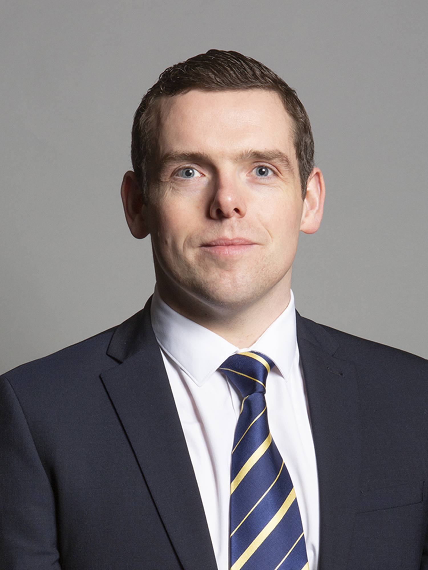 Official portrait of Douglas Ross MP 3×4 portrait of Douglas Ross